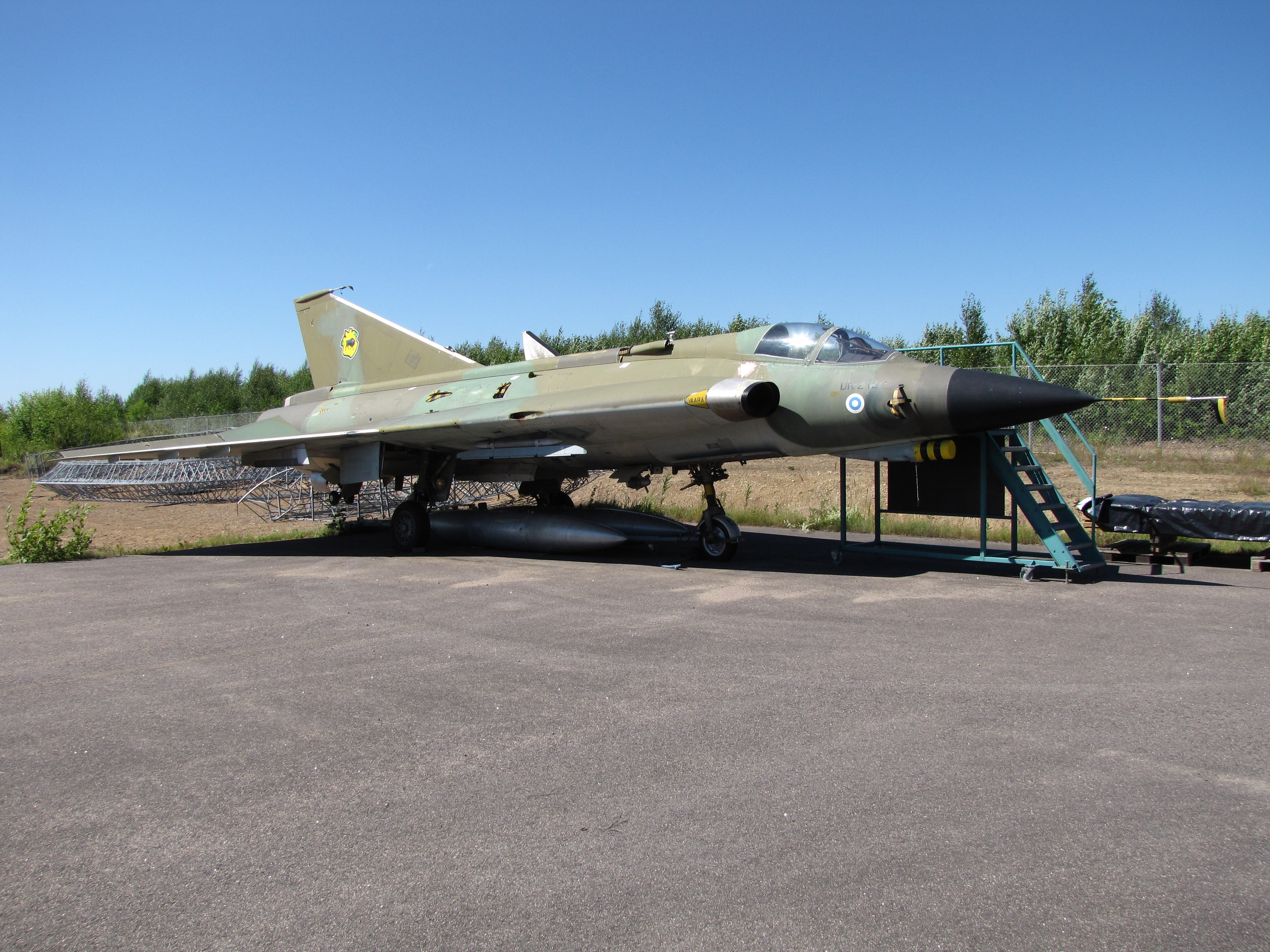 Saab 35 S Draken DK-213, a Finnish license-produced Draken F2.